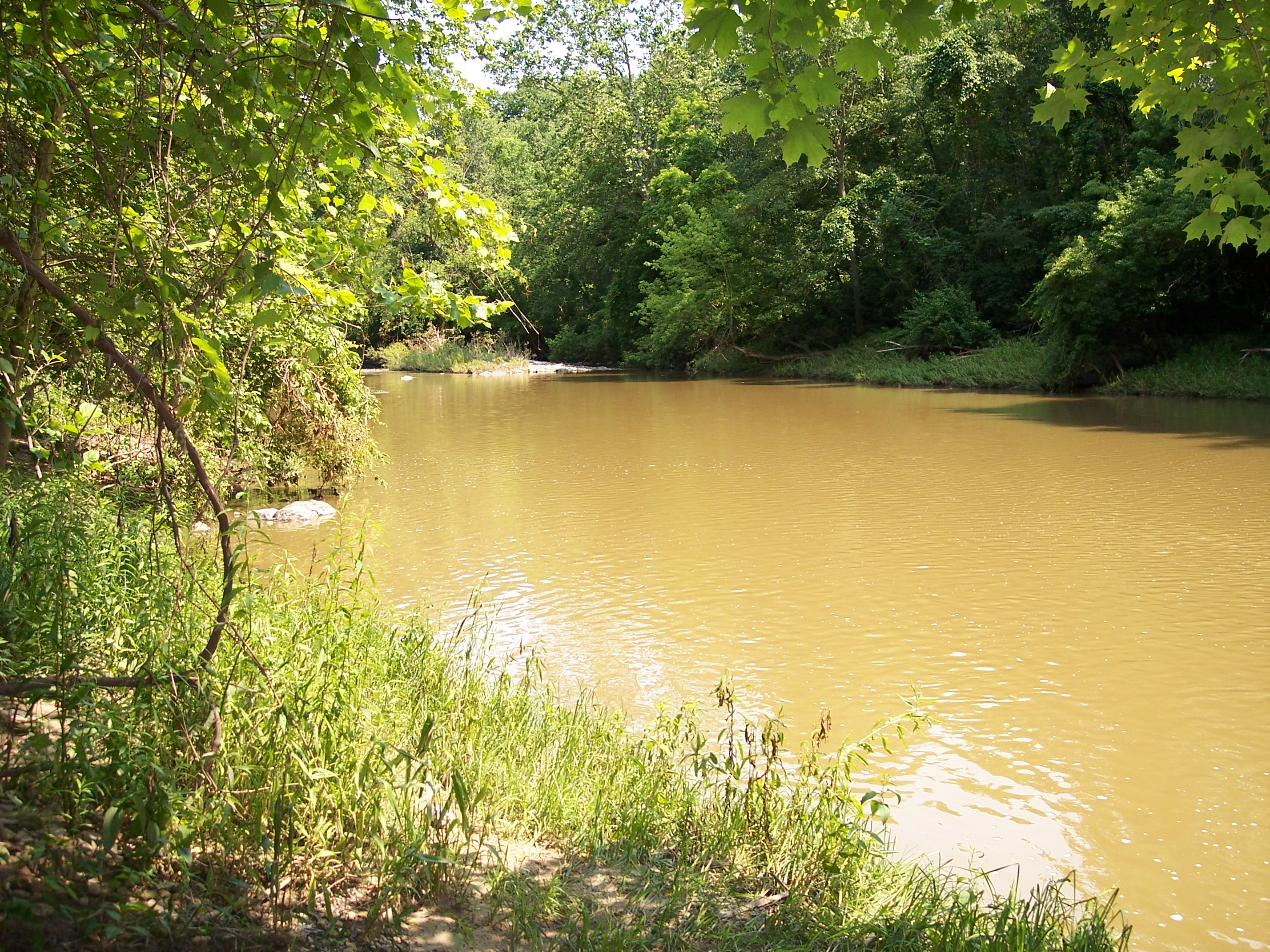 The Vermilion River at Schoepfle Garden Metropark in the community of Birmingham in eastern Erie County, Ohio